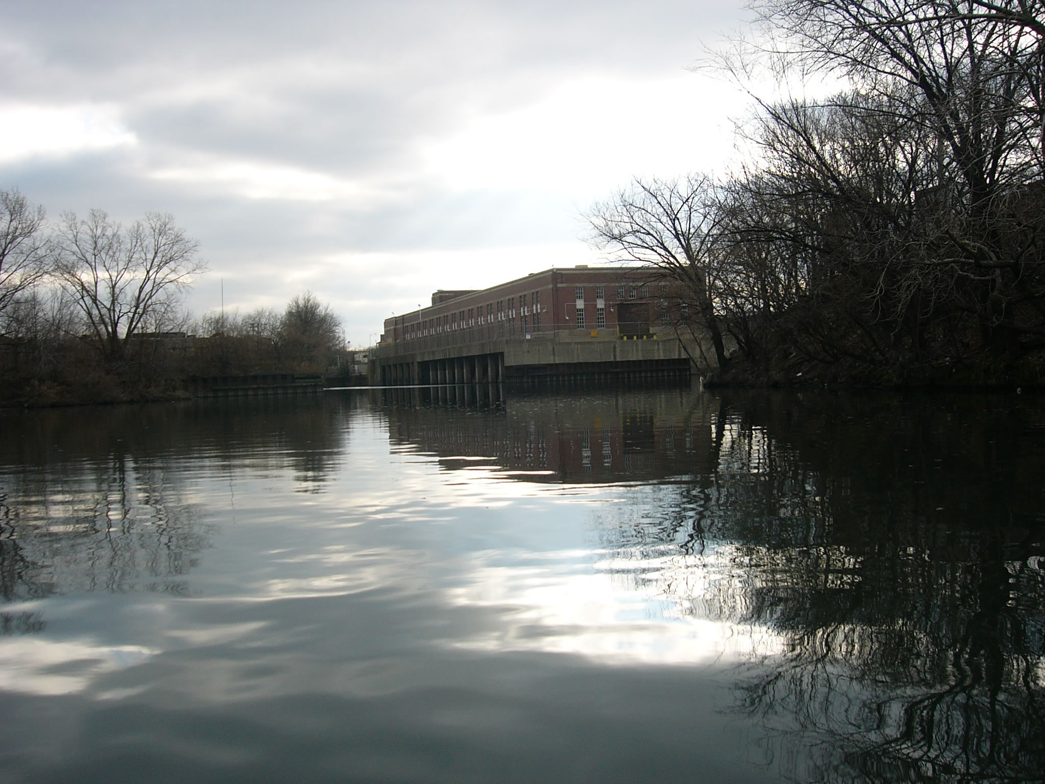 South Fork South Branch Chicago River, nicknamed "Bubbly Creek"